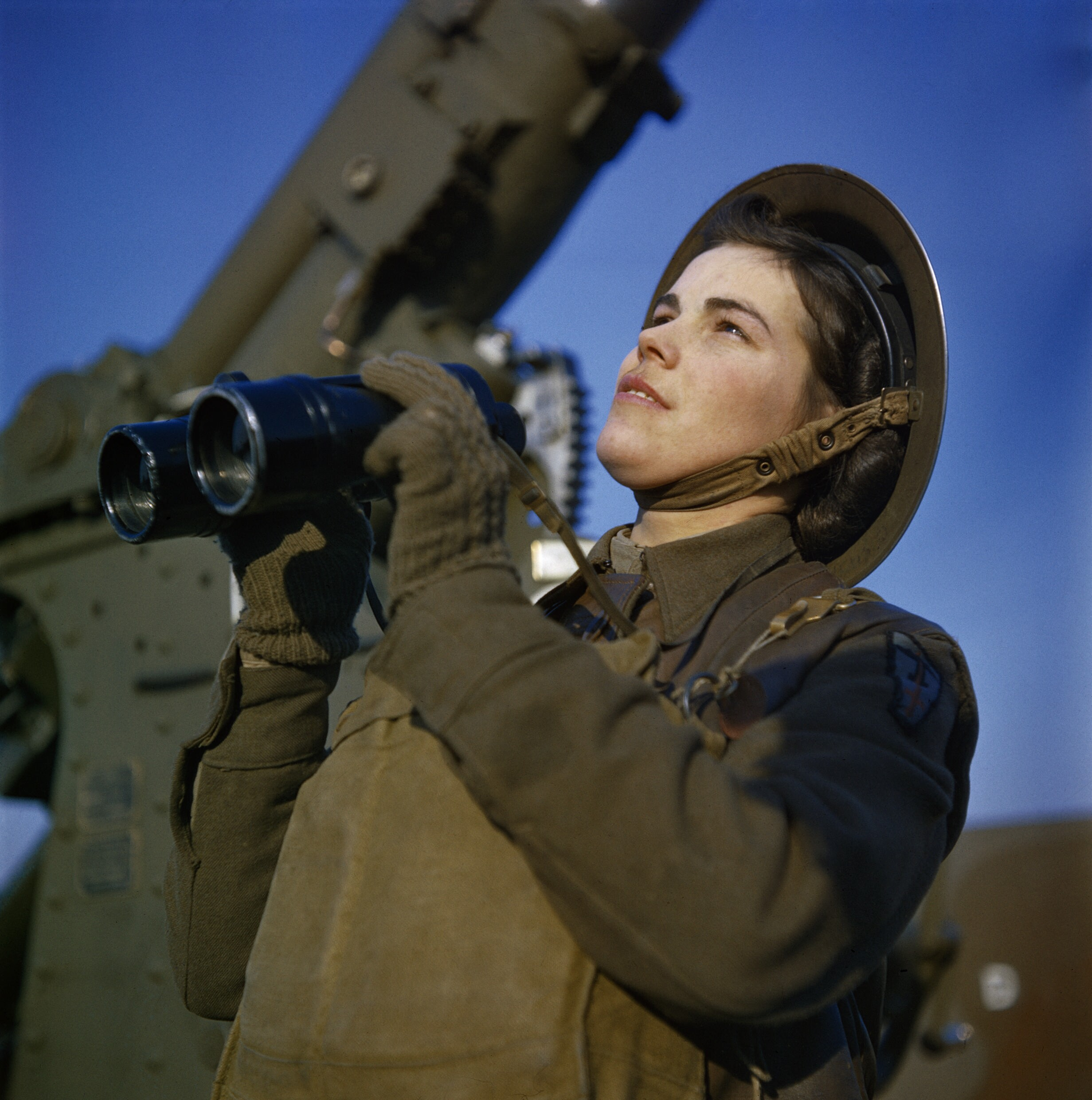 A member of the ATS (Auxiliary Territorial Service) serving with a 3.7-inch anti-aircraft gun battery, December 1942. An ATS spotter with binoculars at the anti-aircraft command post. A 3.7-inch anti-aircraft gun can be seen in the background.